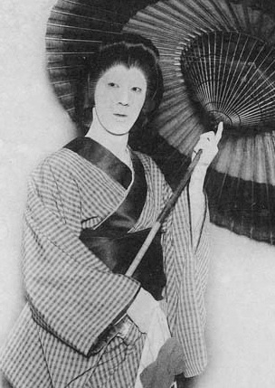 Baikō Onoe VI (1870–1934) as Yokogushi Otomi in the Imperial Theatre production of Yowa Nasake Ukina no Yokogushi (Kirare Yosaburō)